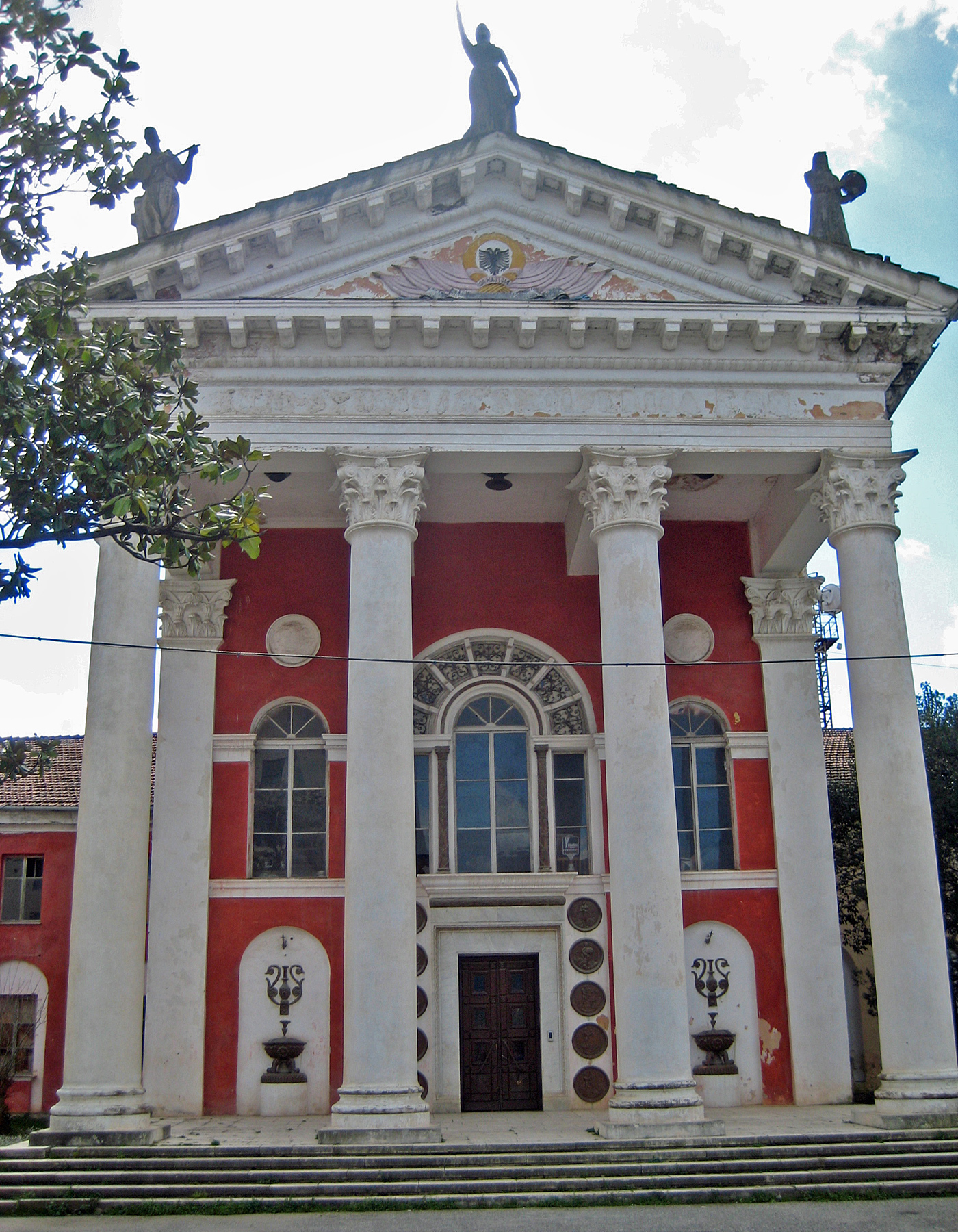 Kinostudion Shqipëria e re, Tirana, Albania